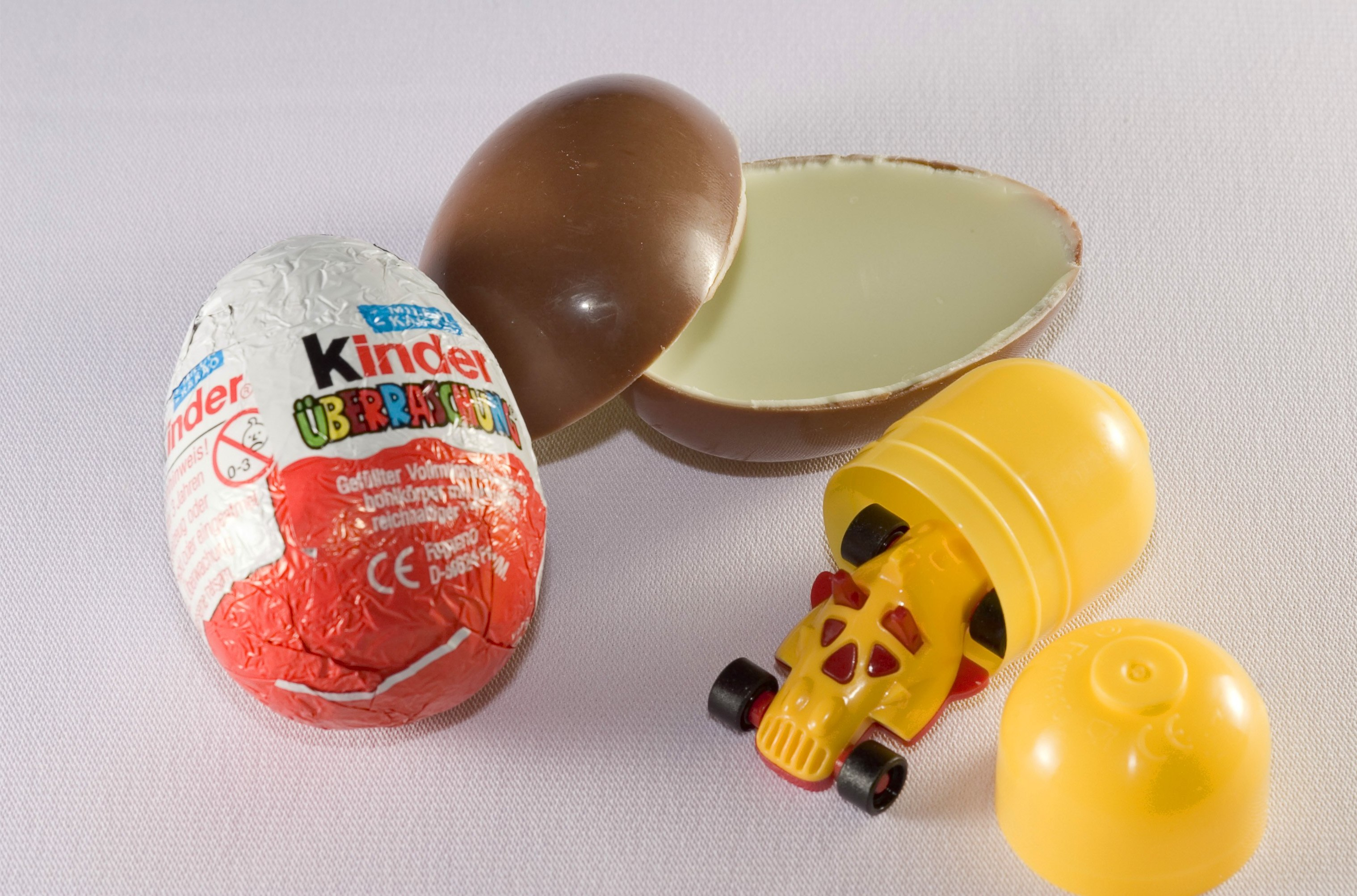 Kinder Surprise Egg Display (German Edition: Kinder Überraschung)